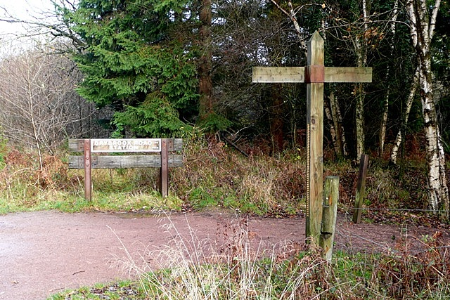 Drybrook Road station The former Coleford to Cinderford railway line has now been converted into a cycle track. There are signs and information boards at key points, including here at the former station deep in the forest.